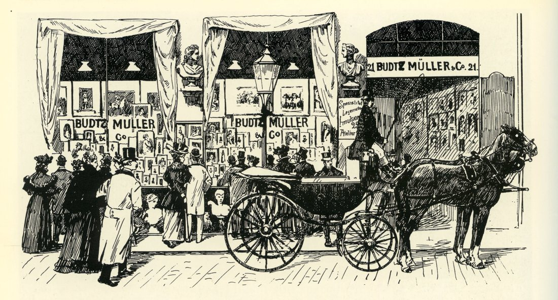 Budtz Müller at Bredgade 21 in Copenhagen, Denmark